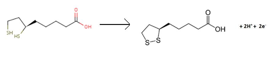 Lipoic acid synthesis